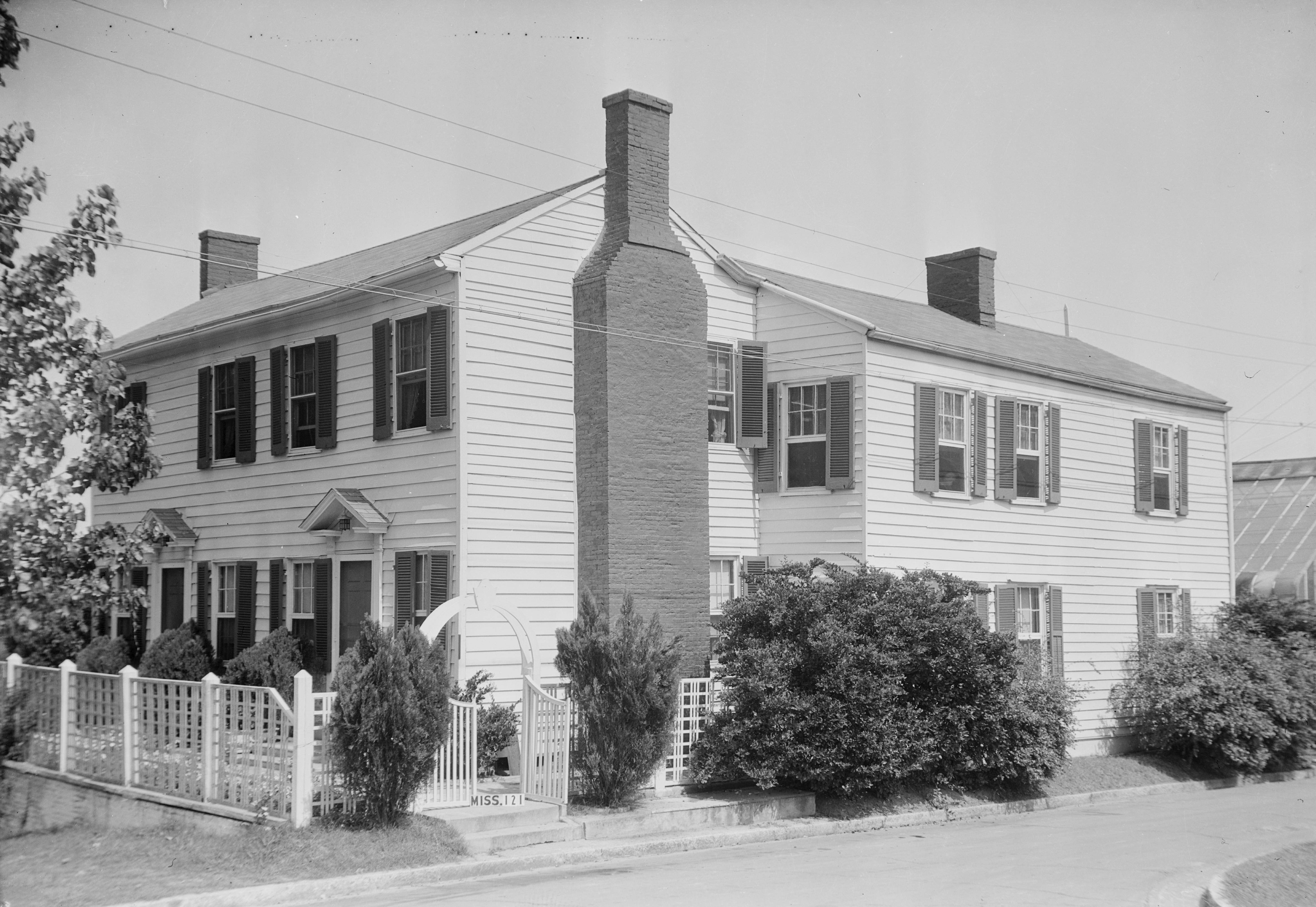 Front of the Governor A.G. McNutt House, located on the northwestern corner of Monroe and E. First Streets in Vicksburg, Mississippi, United States. Built in 1826 for Alexander McNutt, the Governor of Mississippi, it is listed on the National Register of Historic Places.